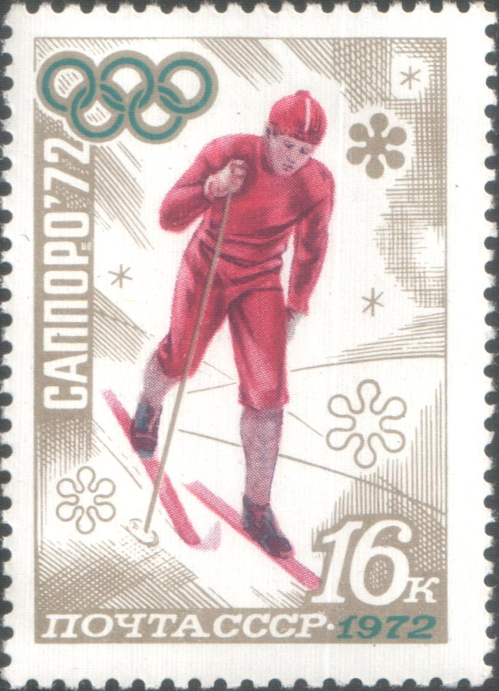 USSR stamp